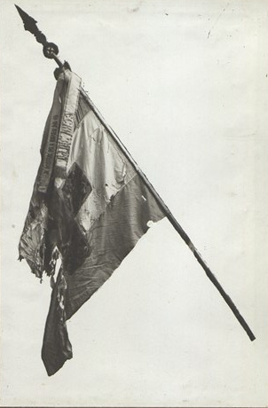 Bulgaria